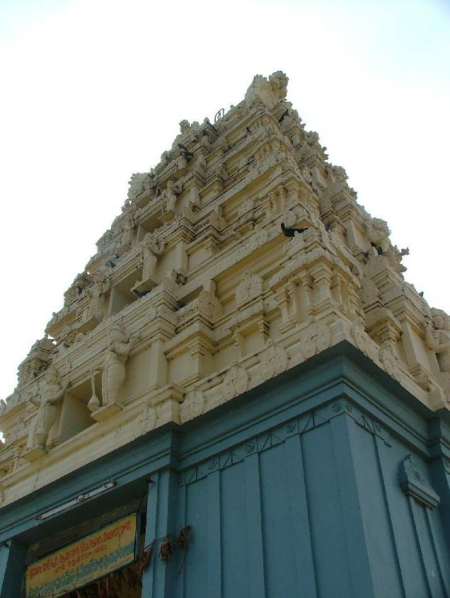 Venugopalaswamy temple in Hamasaladeevi Village - the place where Krishna River meets Bay of Bengal. This temple is considered as one of the 108 holy temples in Srivaishnava culture.